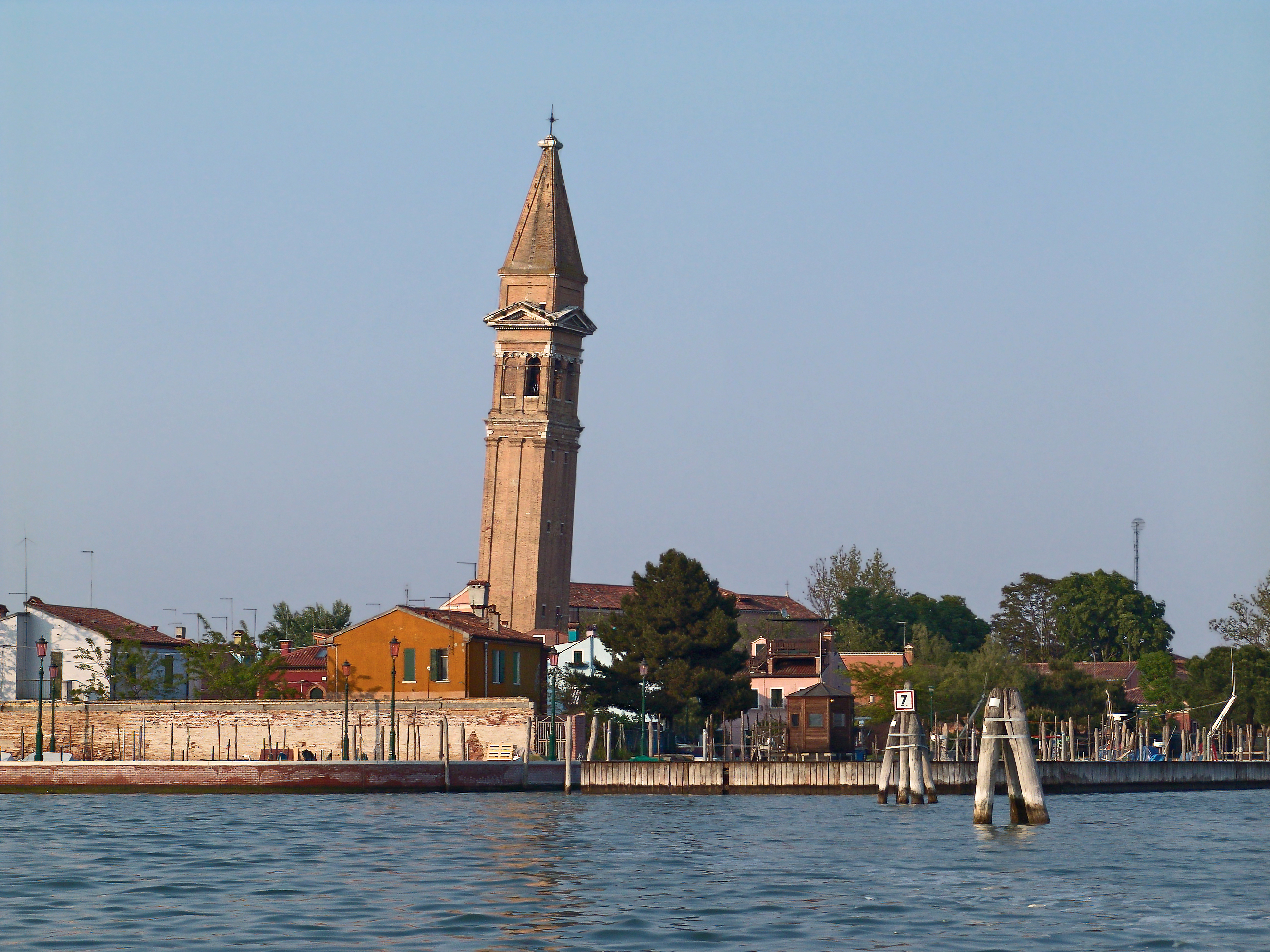 Leaning campanile, of church San Martino in Burano.